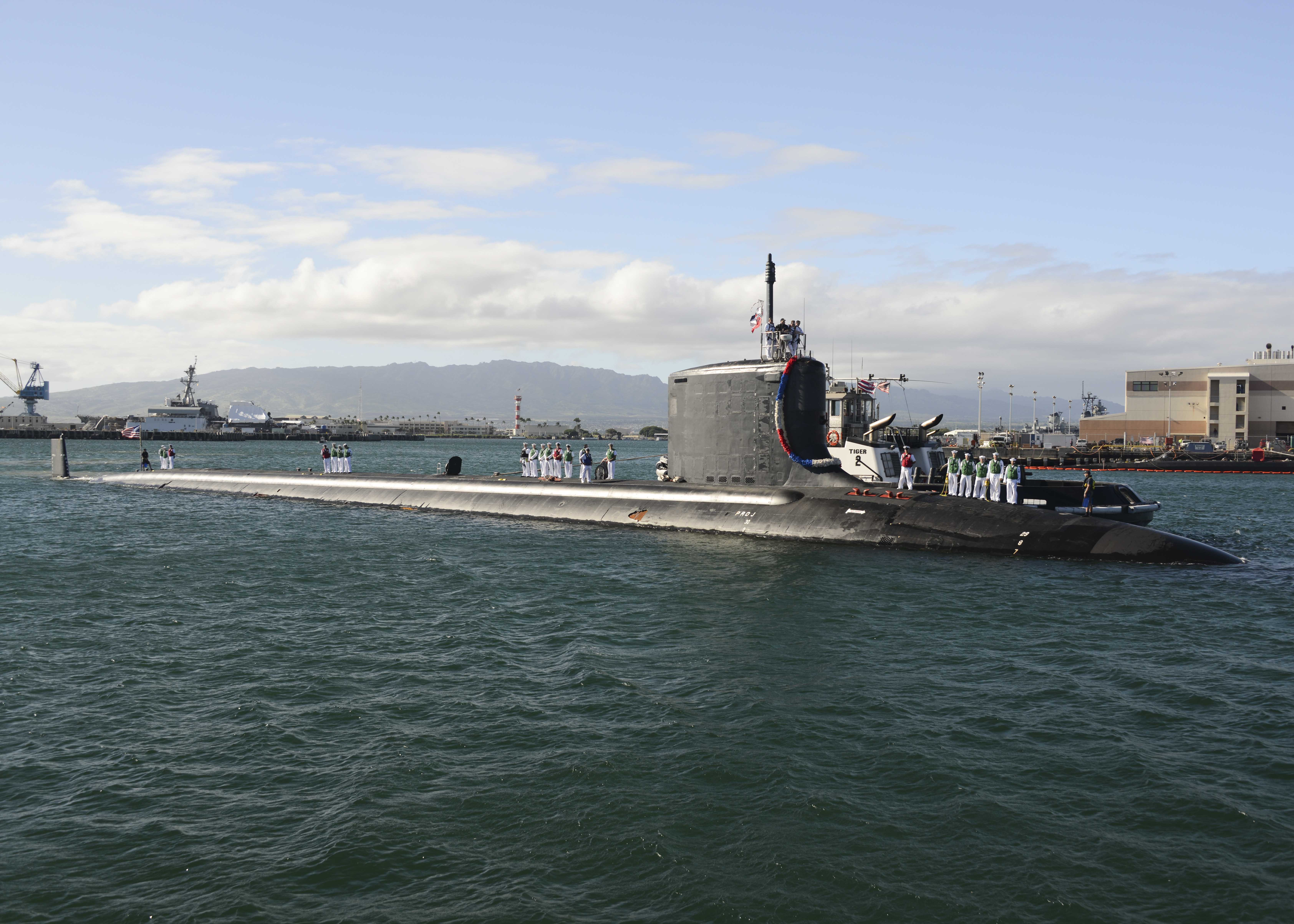 The U.S. Navy Virginia-class attack submarine USS Mississippi (SSN-782) arrives at Joint Base Pearl Harbor-Hickam for a change of homeport from Commander, Submarine Squadron (SUBRON) 4 in Groton, Connecticut (USA), to SUBRON-1. Mississippi was the 4th Virginia-class submarine to be home ported in Pearl Harbor, and one of 18 attack submarines permanently homeported at the historic base.